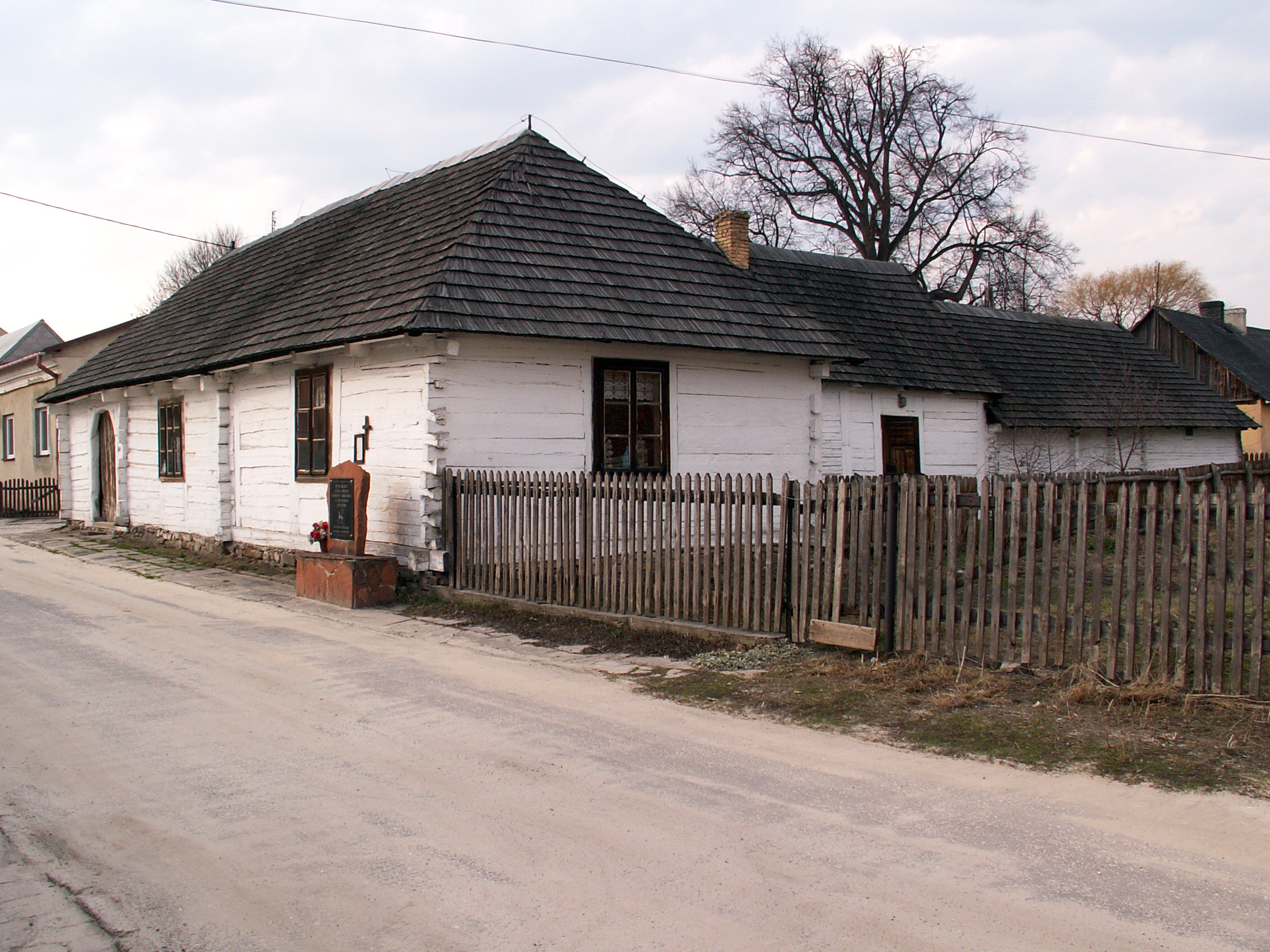 Old farmhouse in Bodzentyn (Poland)